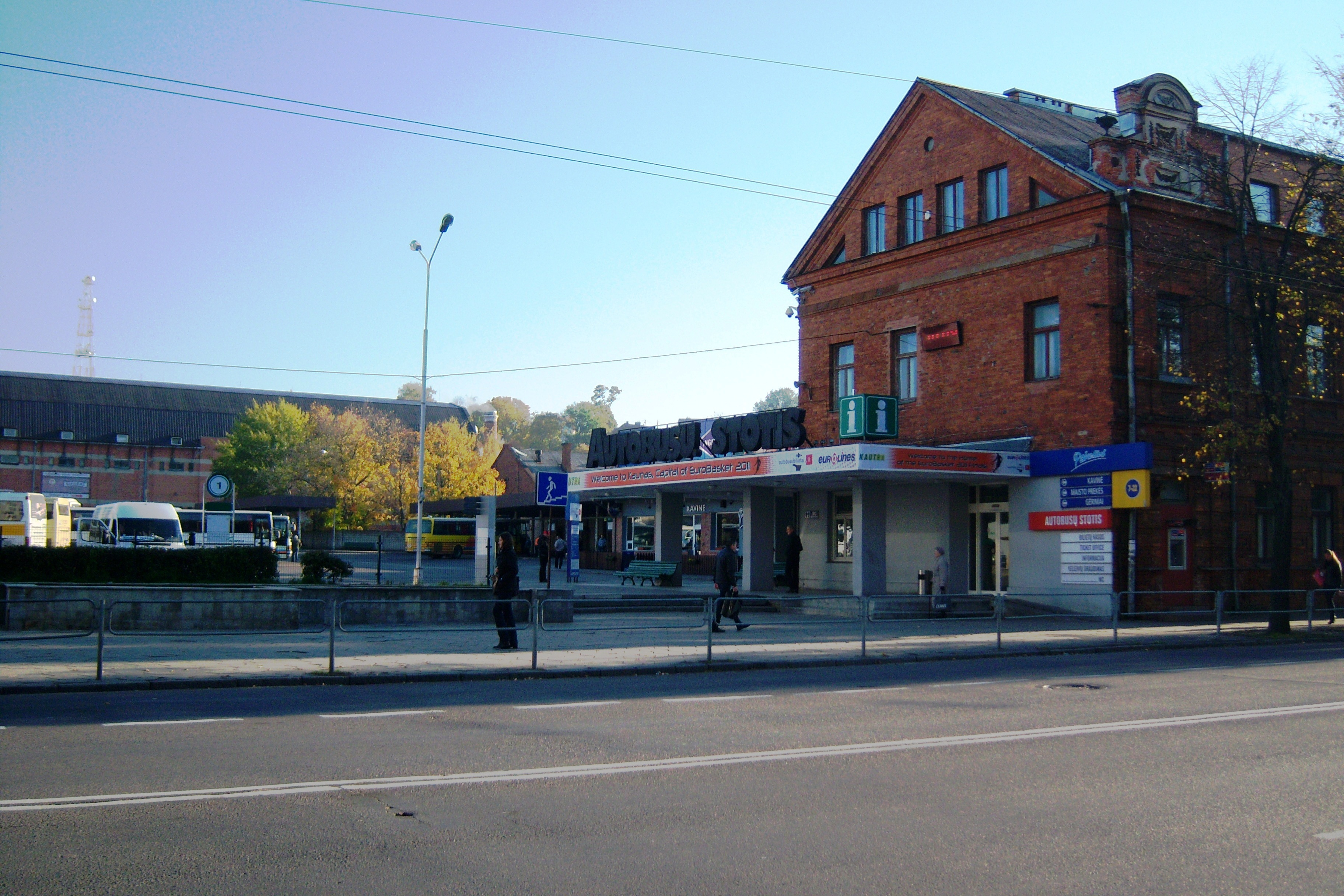 Kaunas bus station, Lithuania.